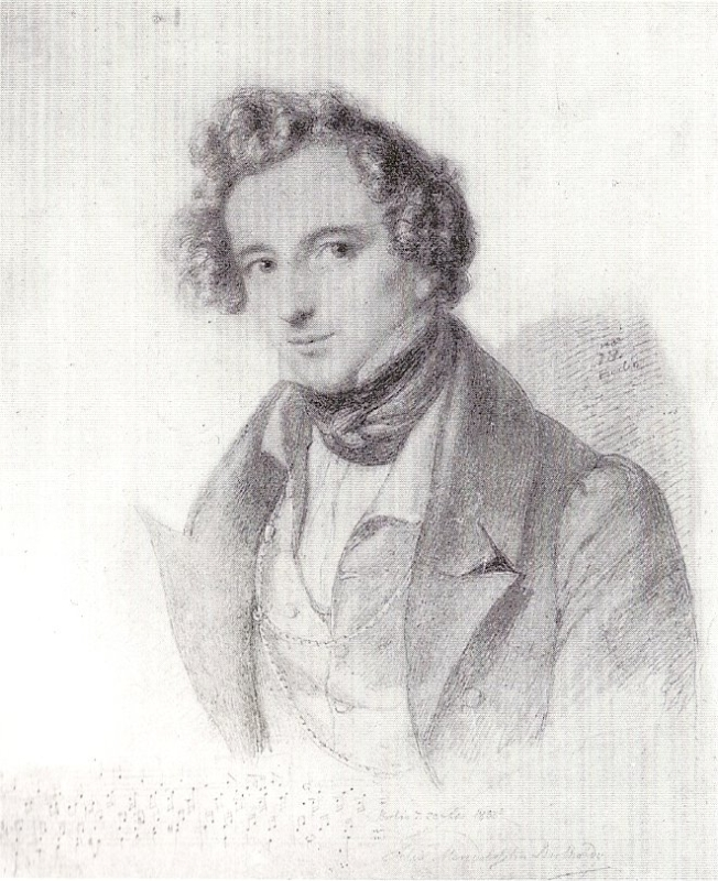 Felix Mendelssohn Bartholdy: Pencil drawing